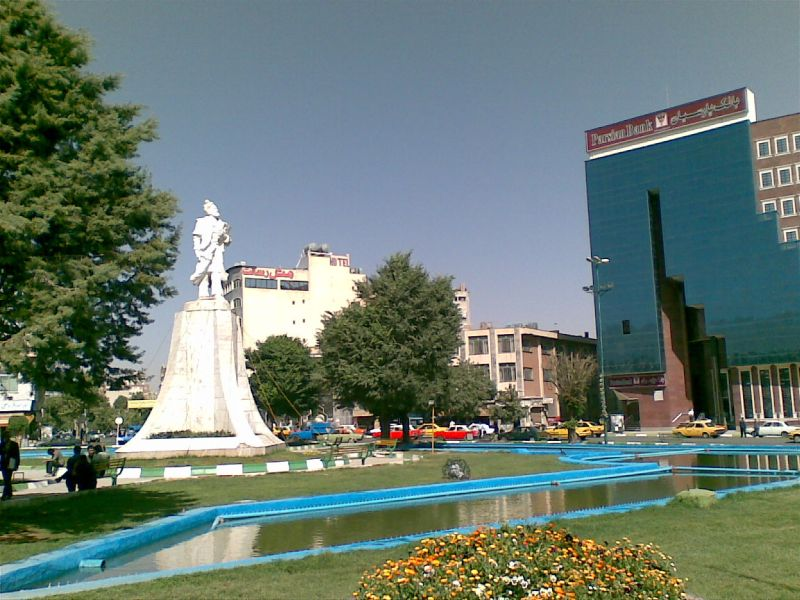 Kermanshah City